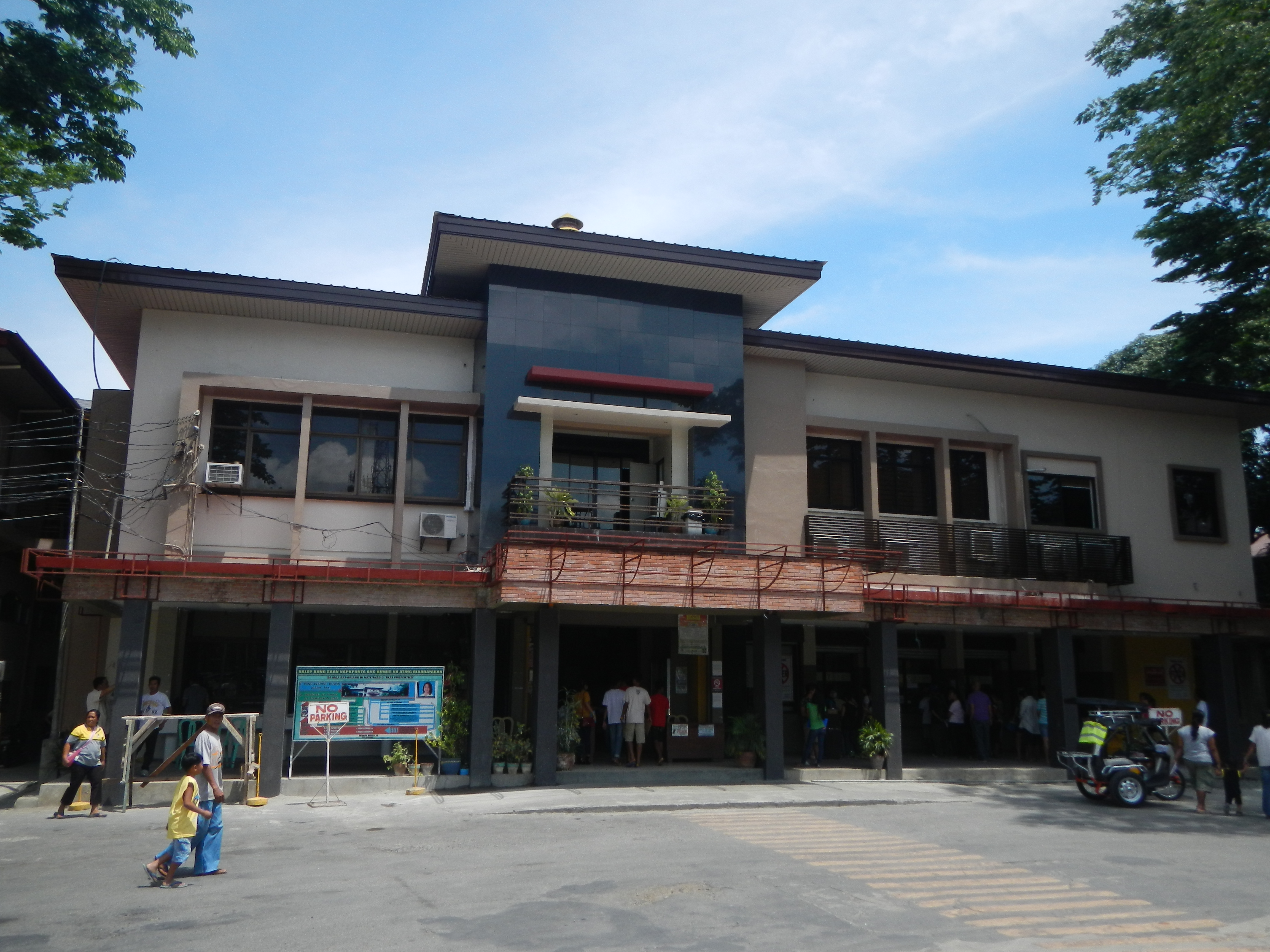 San Jose City Hall (Nueva Ecija), newly restored Hal Complex Compound, facade and surroundings in Centro, City Proper, Junction.